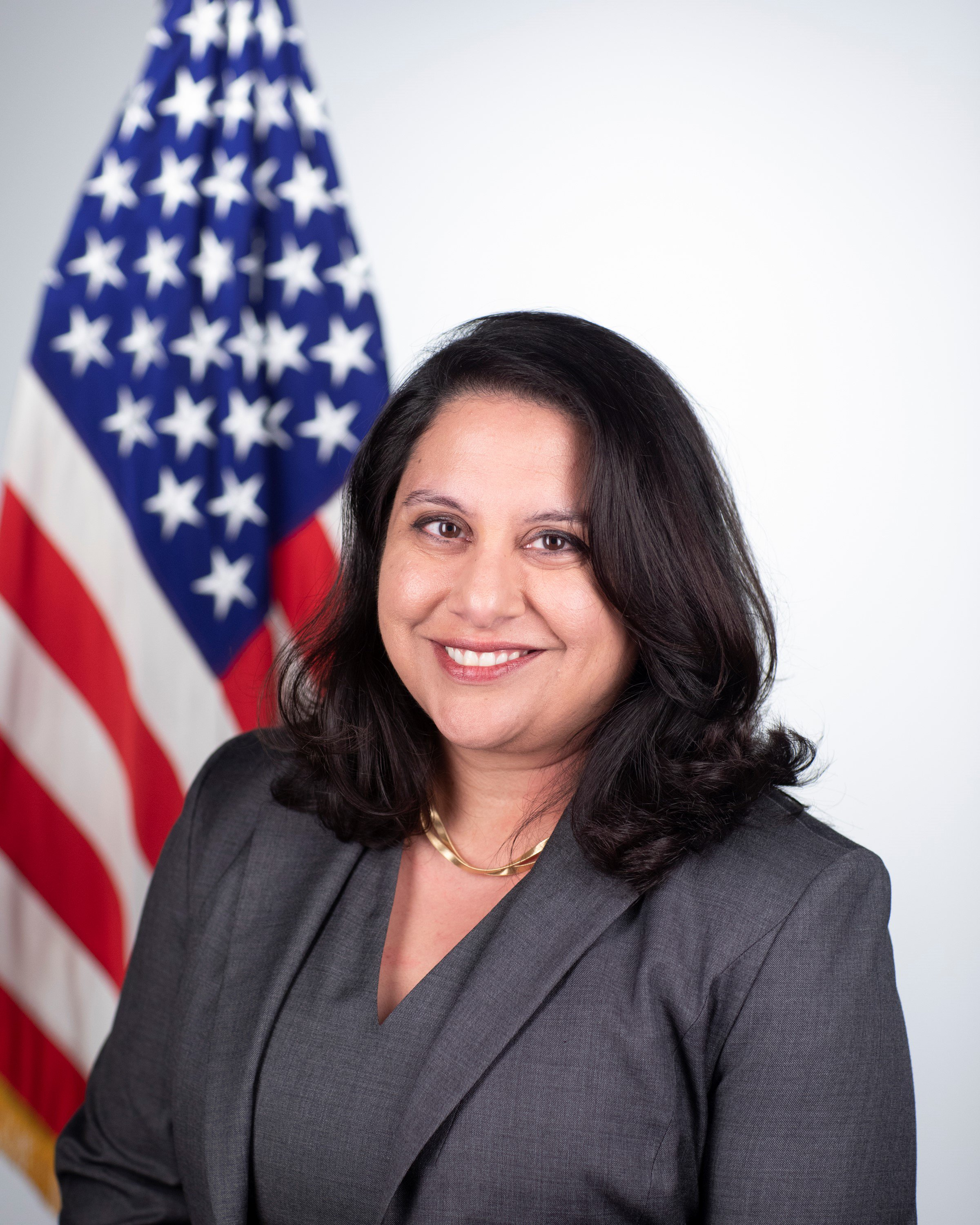 Neomi Rao, Administrator for the Office of Information and Regulatory Affairs